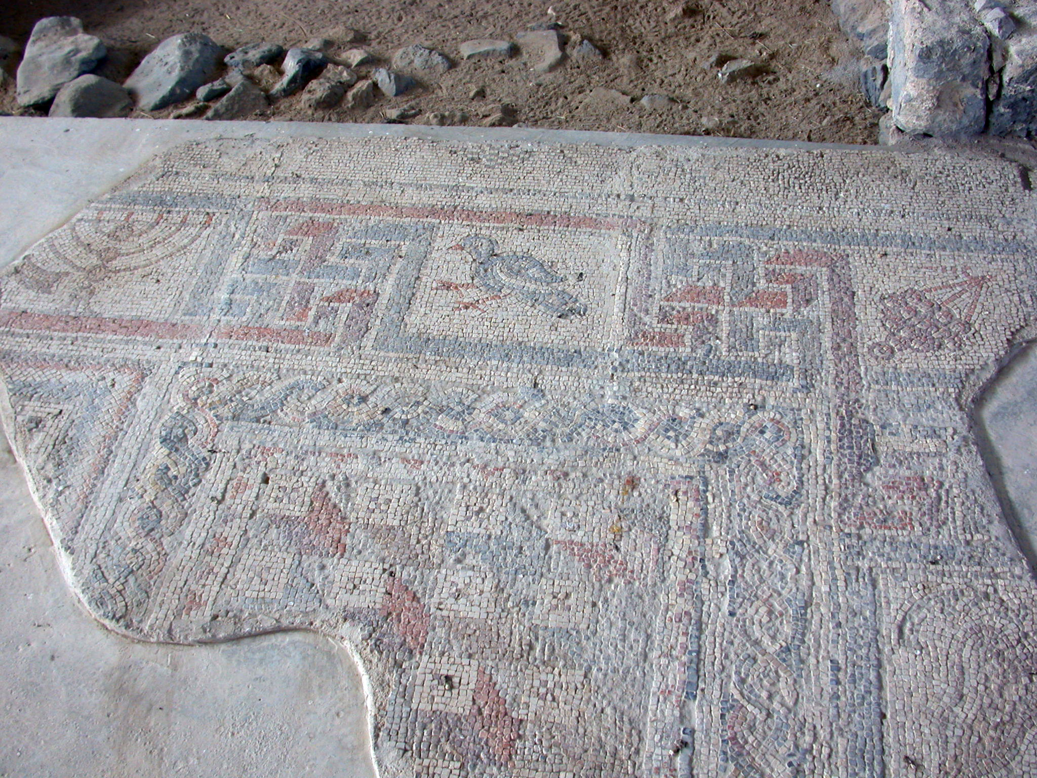 Picture of an Archaeological site מעוז חיים